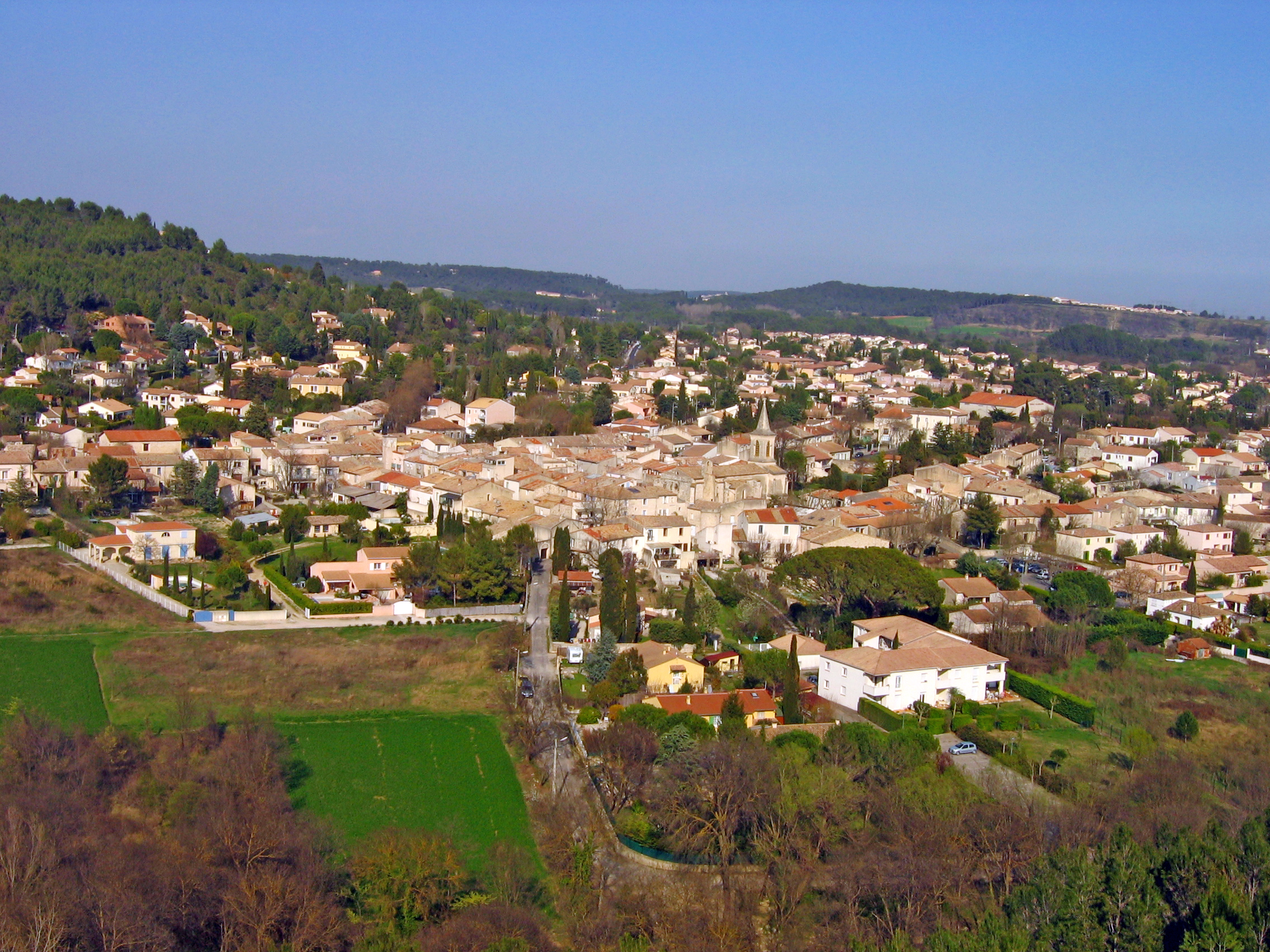 Grabels